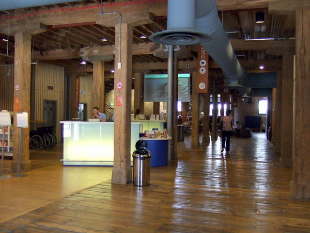 Inside the Docklands museum Much of the structure of this 1802 sugar warehouse remains intact, built as solidly as the merchant ships that docked outside. The building represents a significant point in the notorious 'triangular trade': ships would leave London bound for West Africa, collect a shipload of captives, sail to the West Indies where Africans would be sold as slaves, and then return on the final leg to England with a cargo of sugar. World Heritage Site status is being sought in recognition of this.